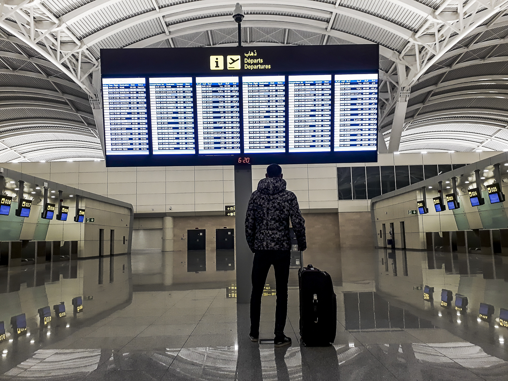 Provide all information that will help others understand what this file represents. This is an image with the theme "Africa on the Move or Transport" from: Algeria